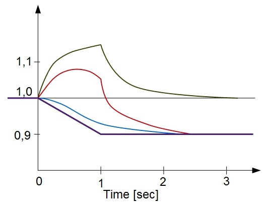 Hydraulic turbine response to a ramp change in gate position. Initial values are 1,0 nominal values. Green color head (pressure), red is power from the turbine, blue is water velocity and violet is gate position.